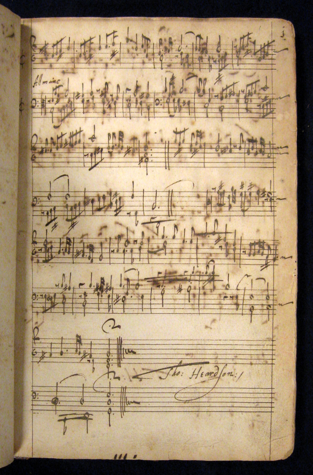 Allmaine by Thomas Heardson, the first work found in the manuscript Drexel 5611, a 17th-century manuscript in the Music Division of the New York Public Library